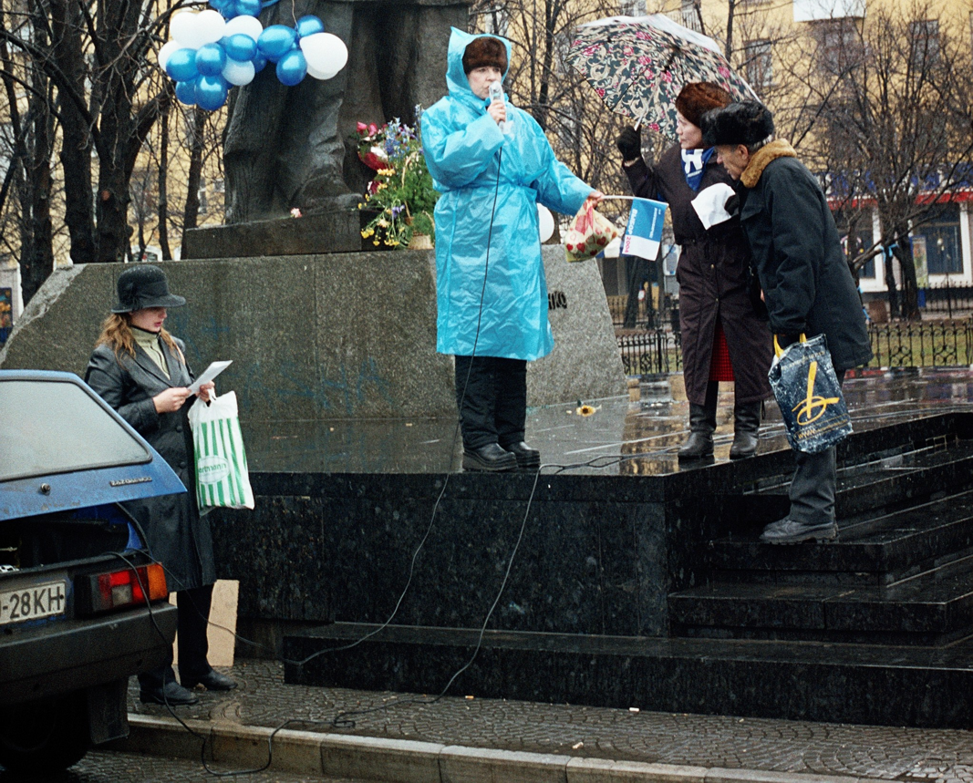 Taras Shevchenko monument in Luhansk during anti-Orange Revolution manifistations.